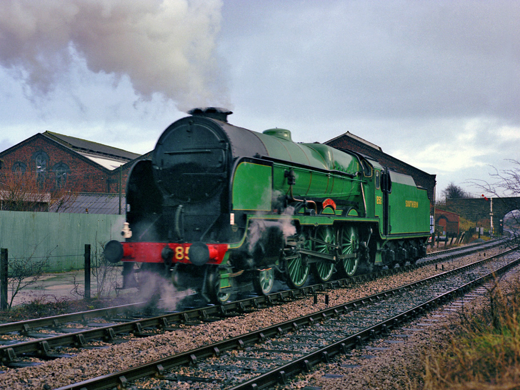 Southern Railway Maunsell A 4-6-0 'Lord Nelson' class locomotive number 850 LORD NELSON passes the former Midland Railway engine shed at Carnforth running light engine from Steamtown Railway Museum to Hellifield to work a Cumbrian Mountain Pullman charter from Hellifield to Carlisle. Saturday 27th November 1982